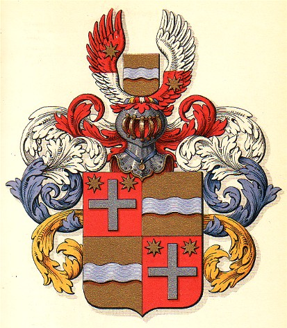 Coat of arms of the von der Maase family